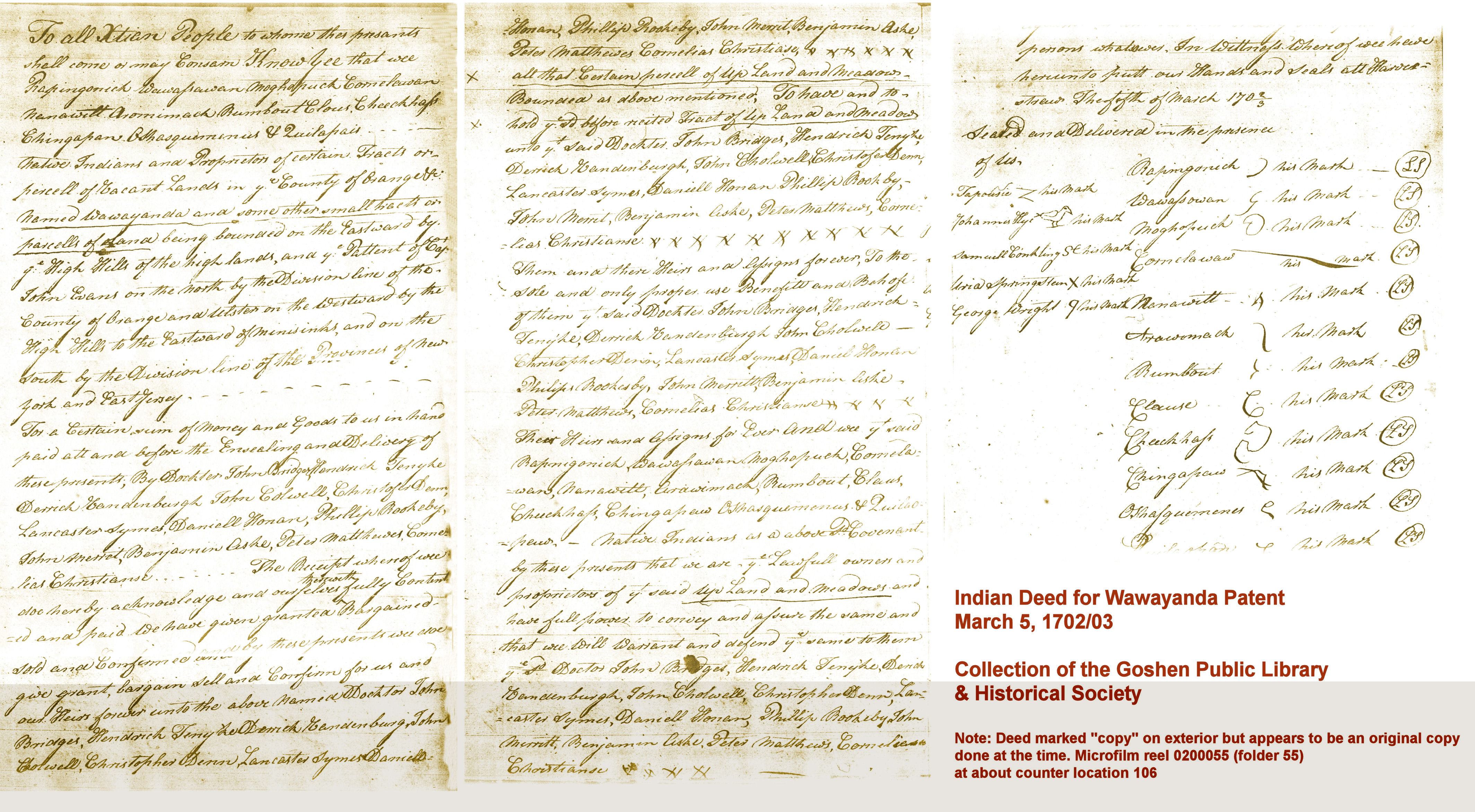 Copy of the Wawayanda Patent March 5, 1702